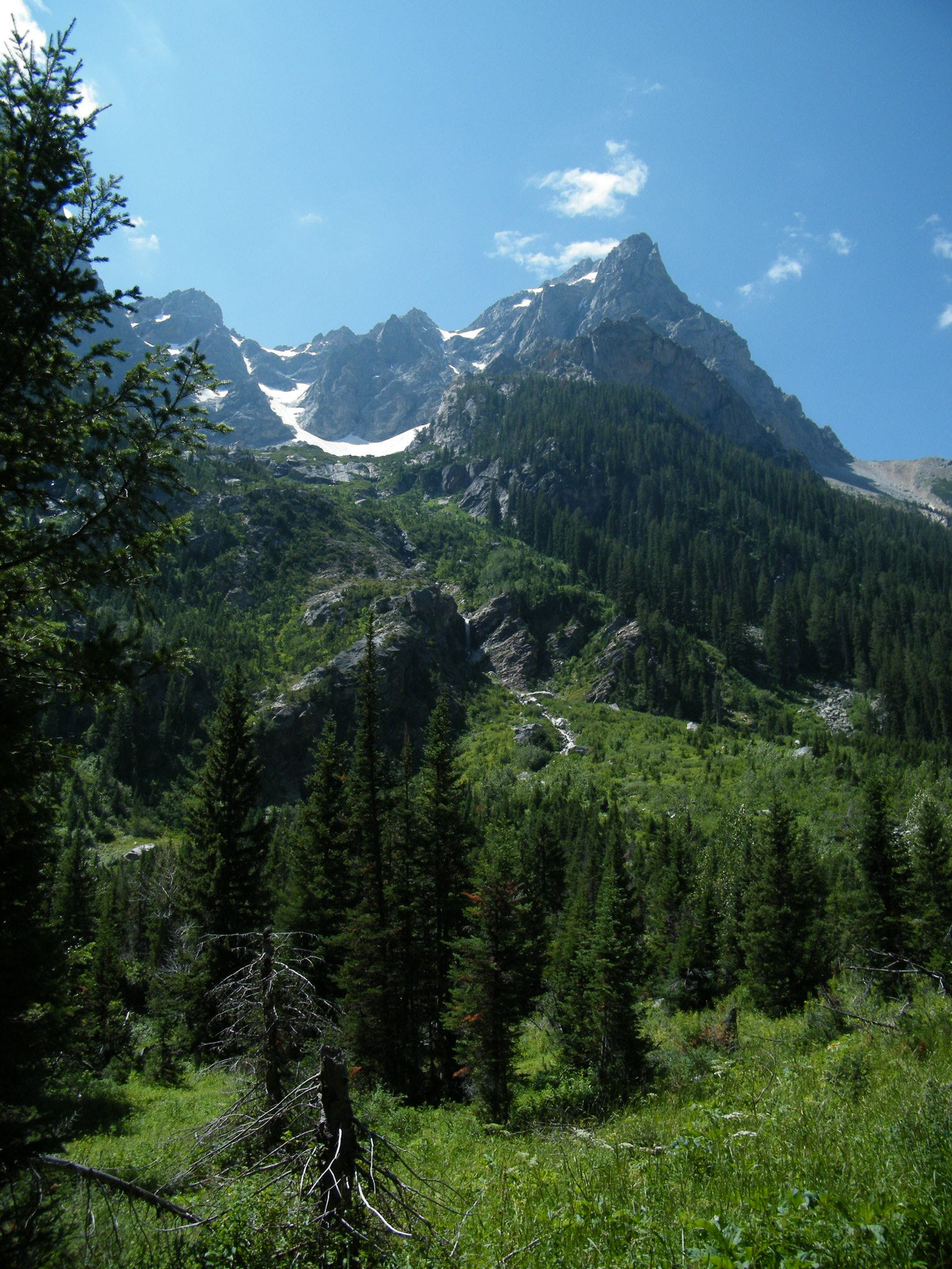 Cascade in Cascade Canyon in Grand Teton National Park.